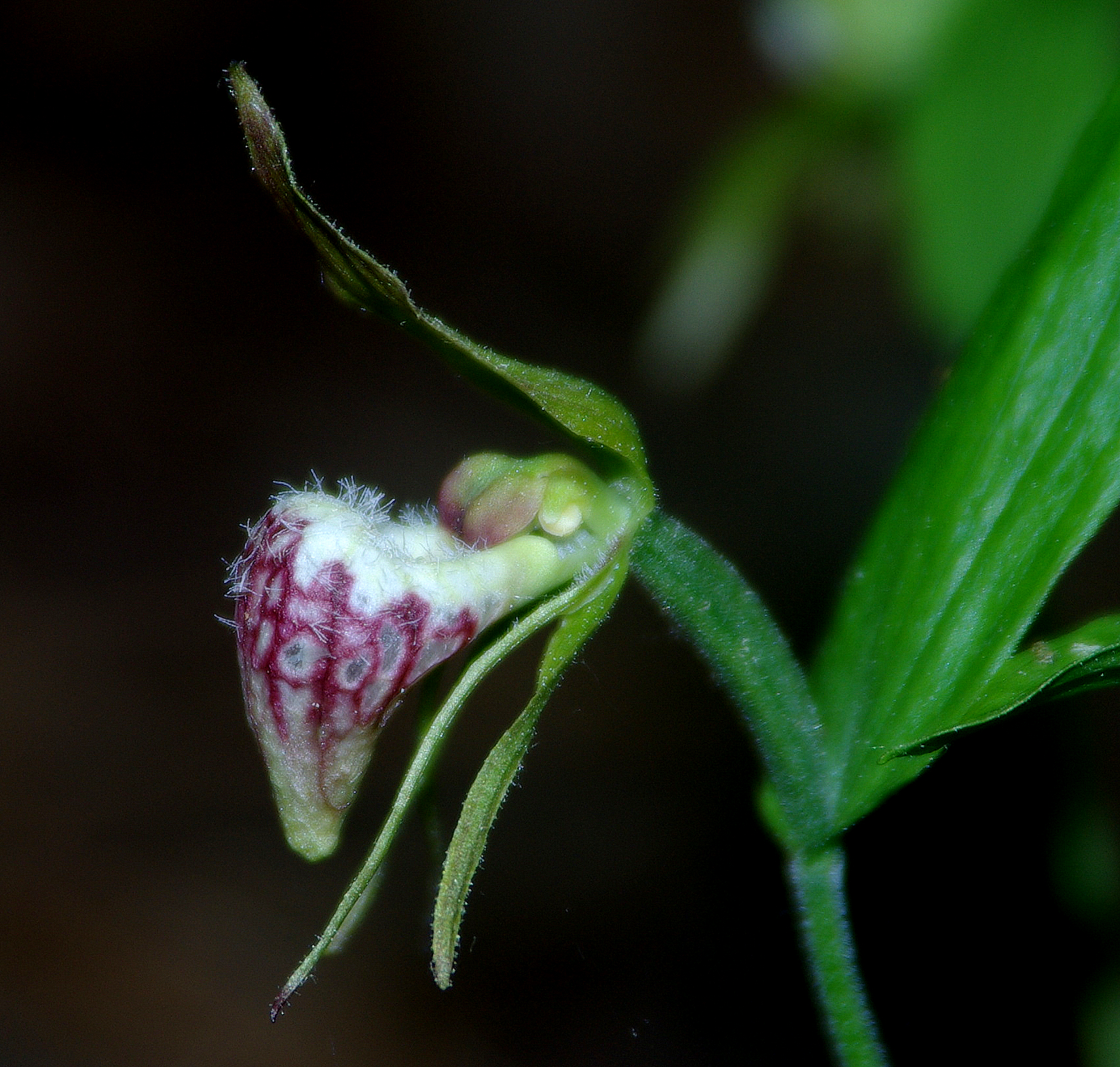 Cypripedium arietinum. A rare and endangered species found only in one small area in Nova Scotia. Flowers are tiny up to 2cm.